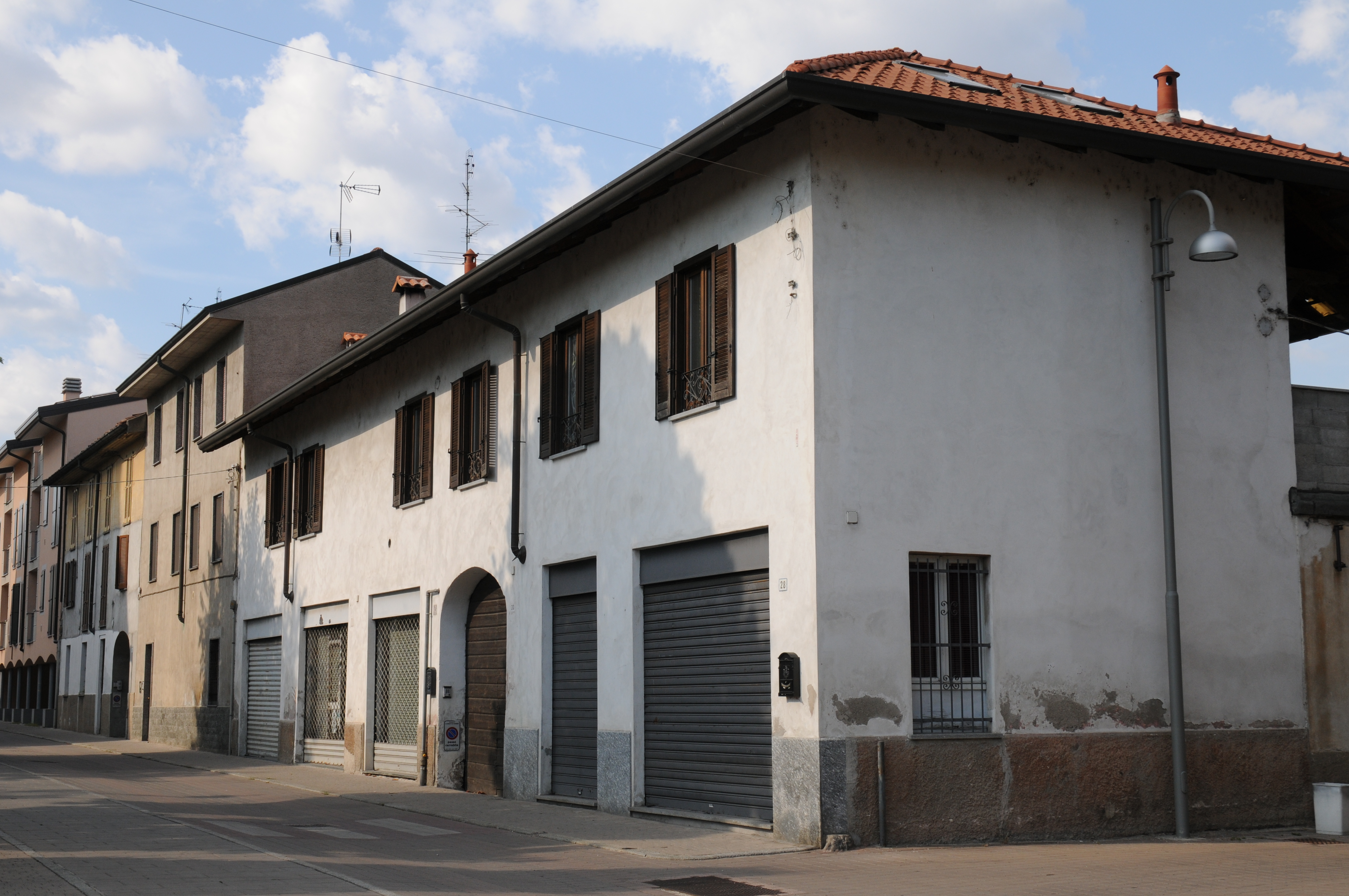 Farmhouse in San Giorgio su Legnano (Italy)